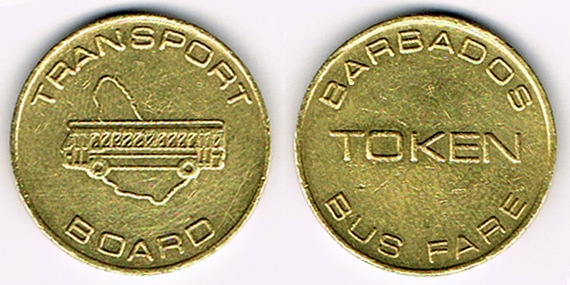 Photo of 2 Barbados Transport Board Tokens, valid for one ride each